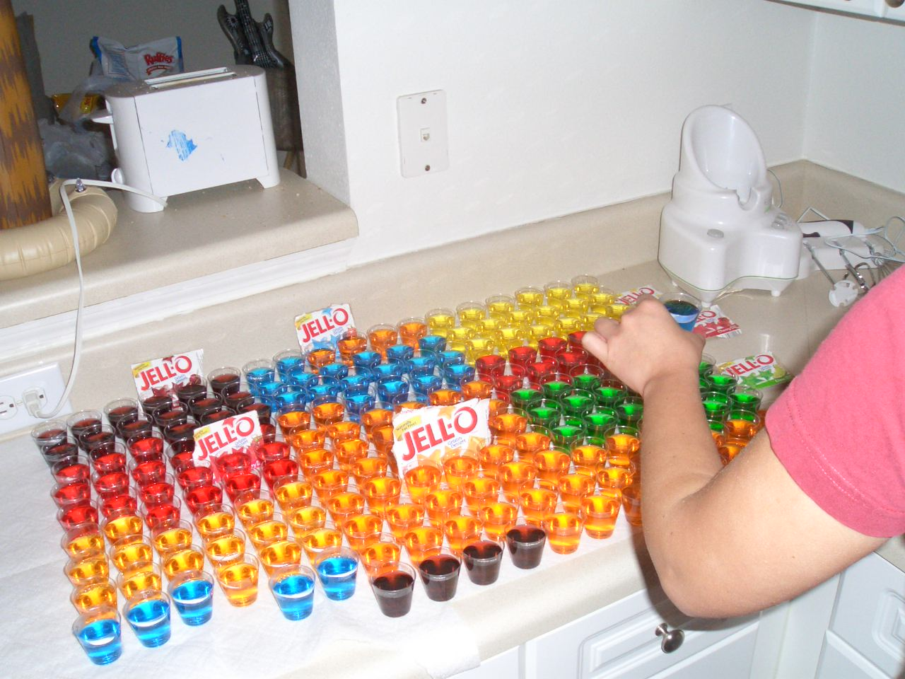 Jelloshots